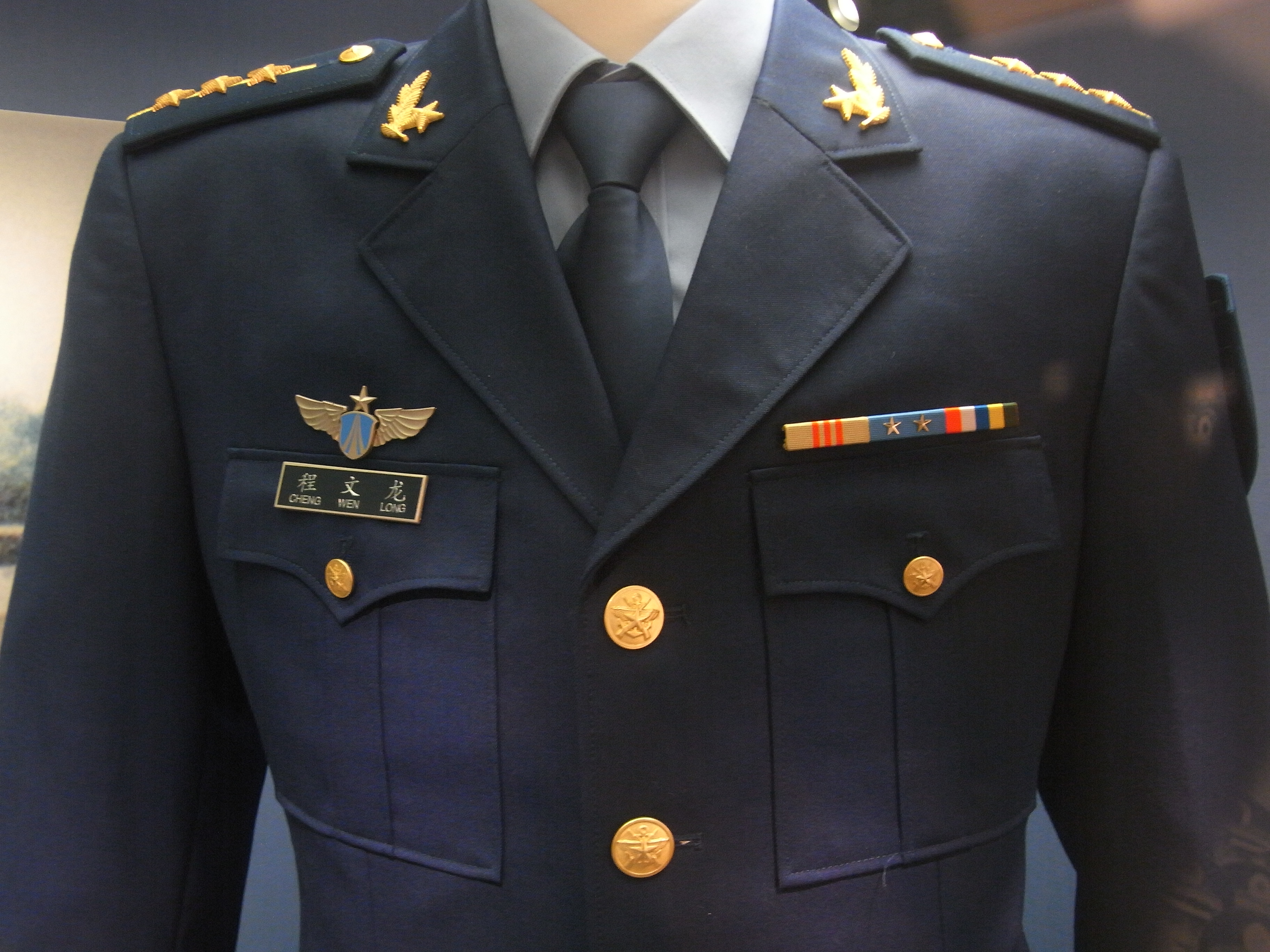 PLA uniform - exhibit - Hong Kong Museum of Coastal Defence, HKMCD, Shau Kei Wan, Hong Kong